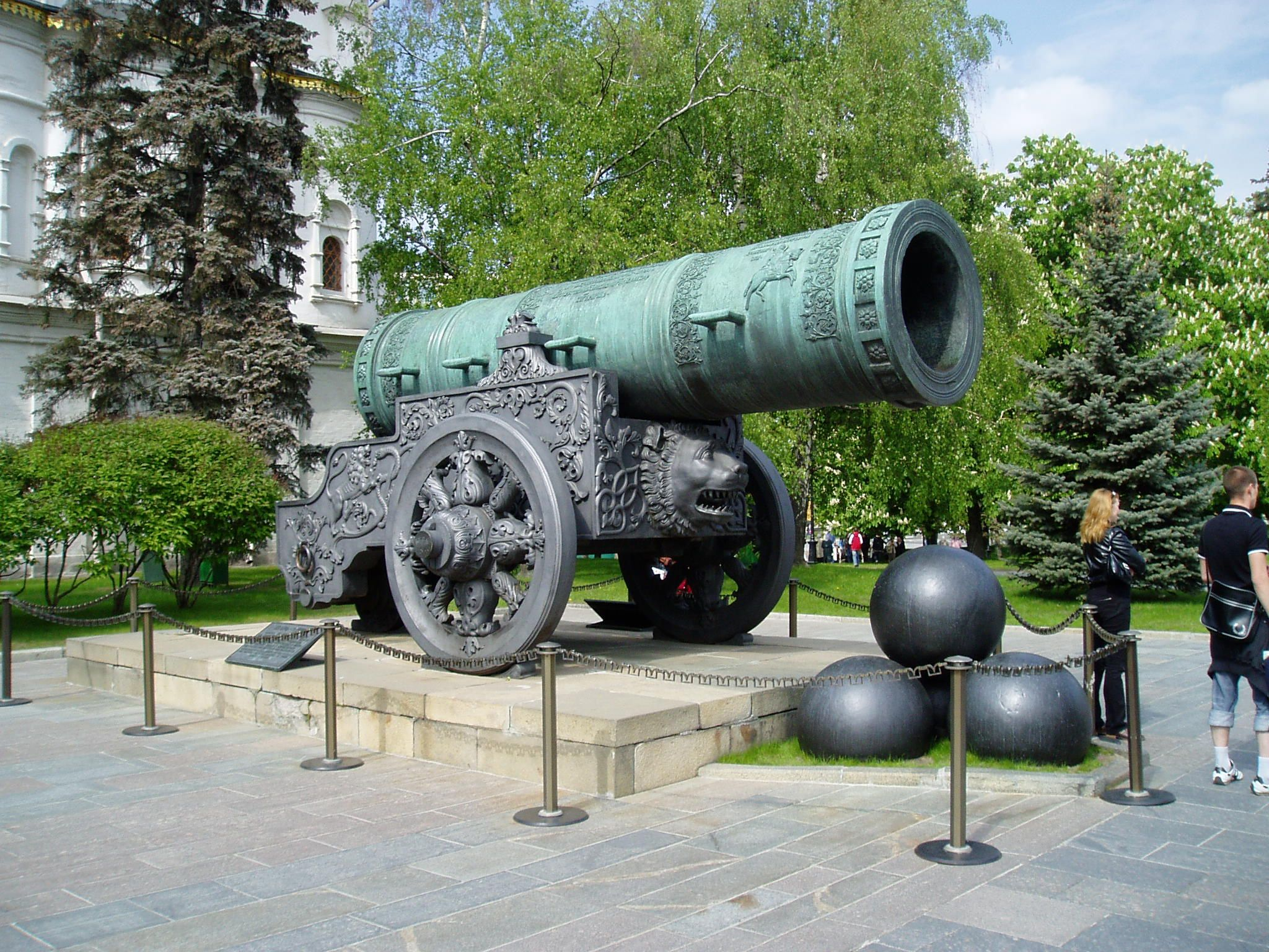 Tsar Cannon, Moscow Kremlin